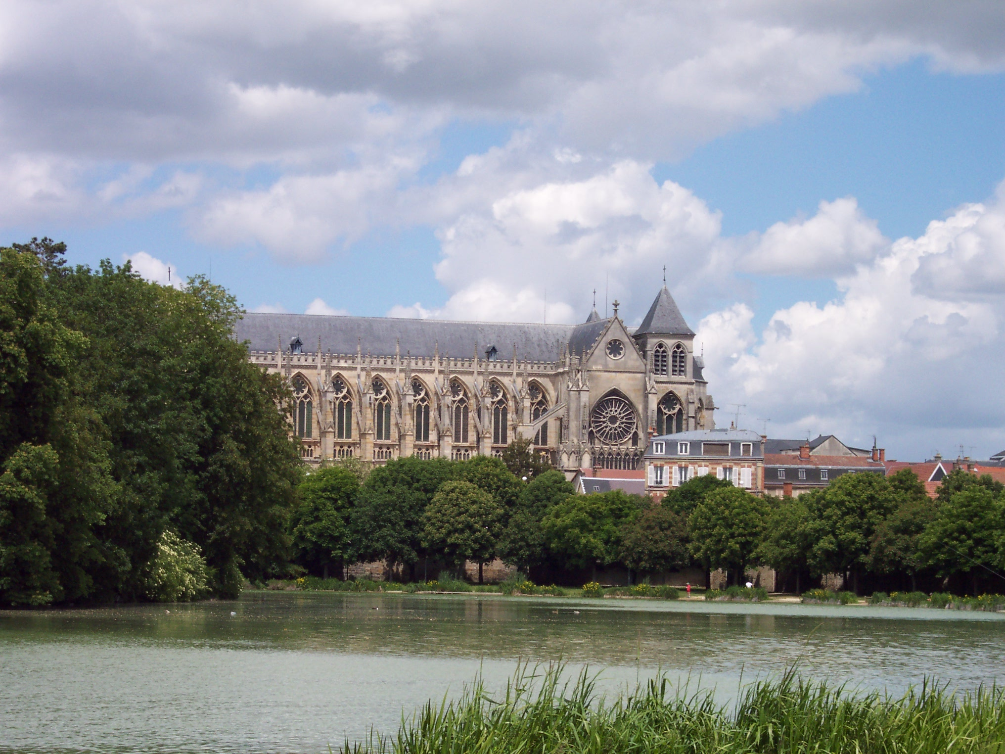 Back of the cathedrale in Châlons-en-Champagne (Champagne-Ardenne, France)